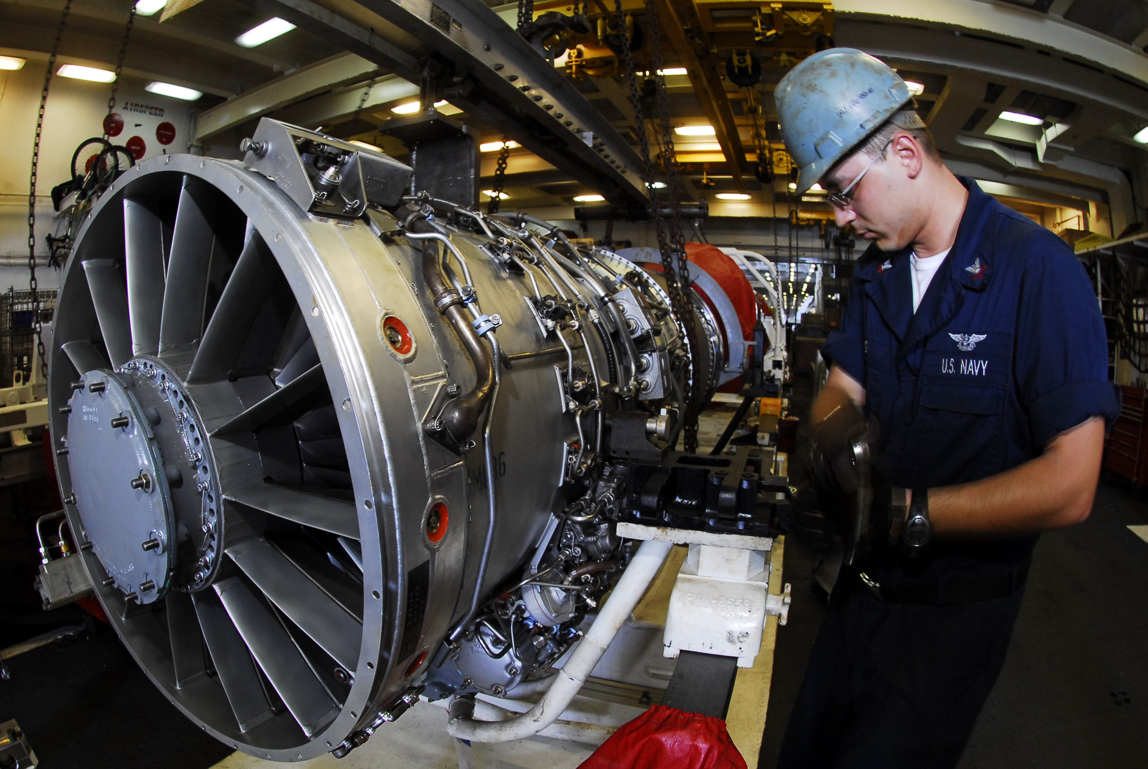 U.S. Navy Aviation Machinist's Mate 2nd Class Shaun Elling, prepares an EA-6B Prowler Pratt & Whitney J52 P-408 engine for transport in the aircraft carrier USS Kitty Hawk's (CV 63) jet shop while under way on the Pacific Ocean during the Rim of the Pacific 2008 exercise July 17, 2008. When the repairs are beyond the scope of the jet shop the engines are boxed up and sent off to a repair depot.